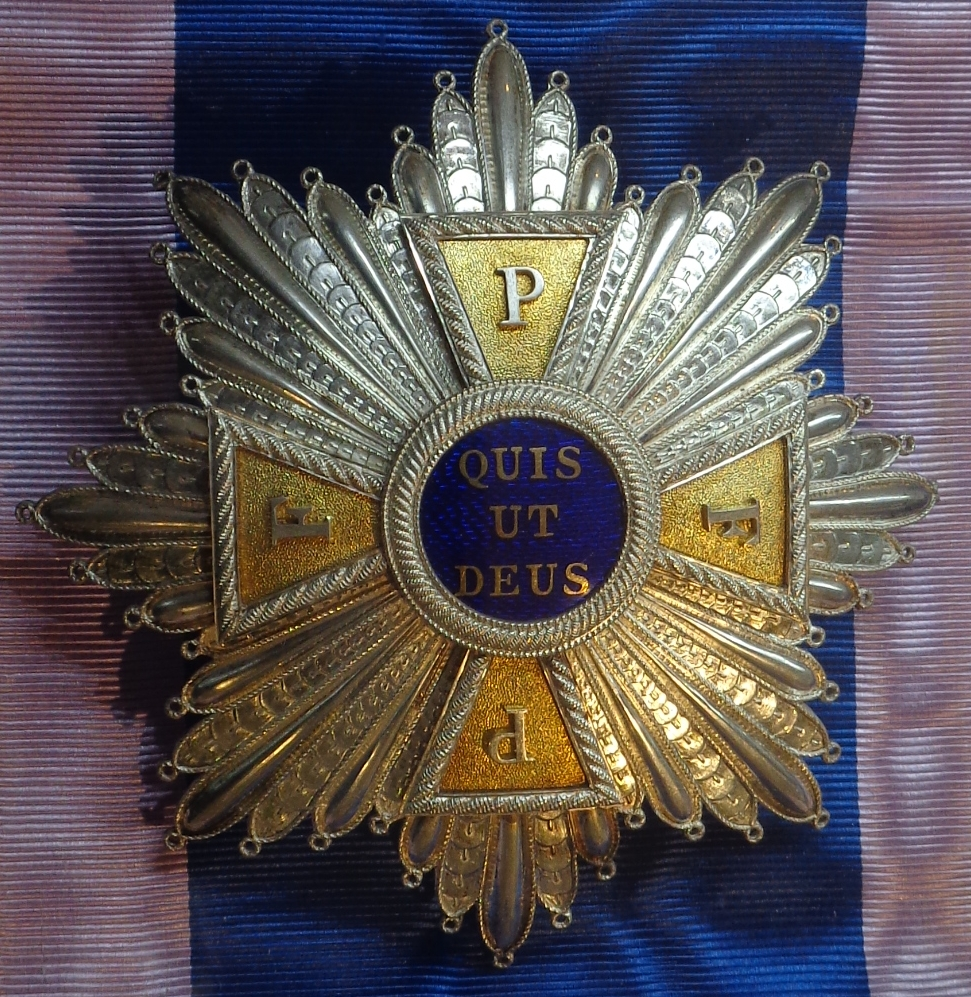 Order of Saint Michael, star of Grand Cross, c.1850. Kingdom of Bavaria. The exhibition of the Tallinn Museum of Orders of Knighthood, Estonia.